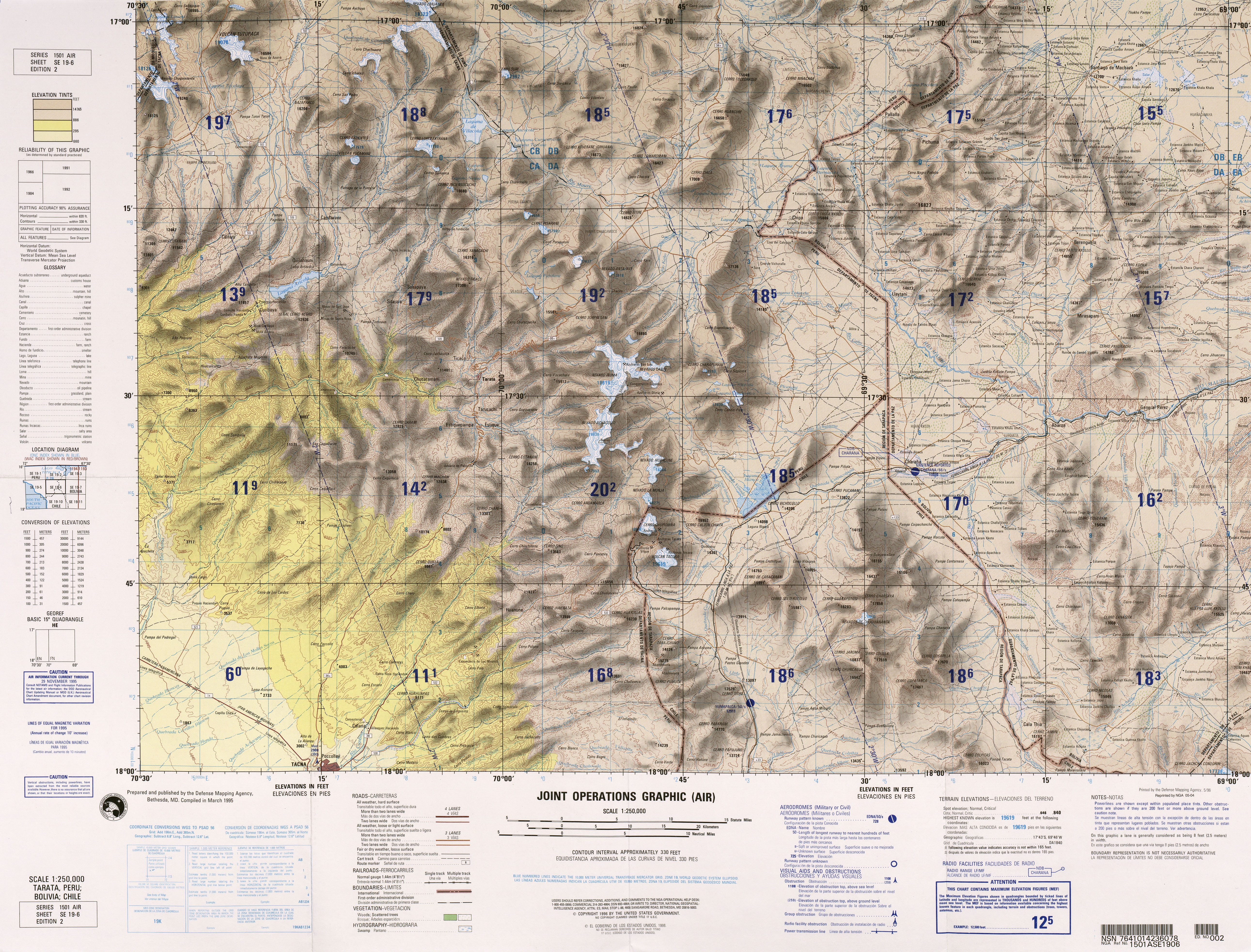 frontera Chile-Peru-Bolivia, Tacna